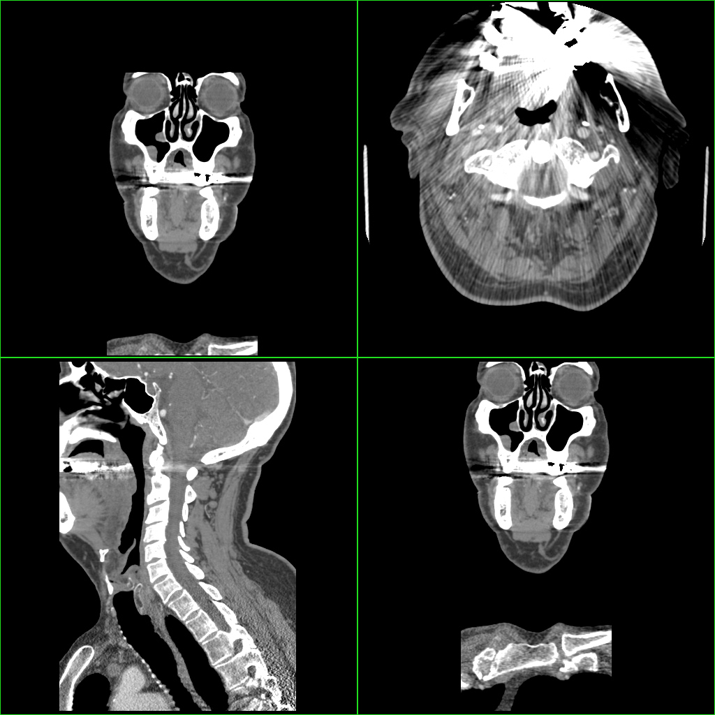 actifact caused by total absporption of X-Ray in head CT scan